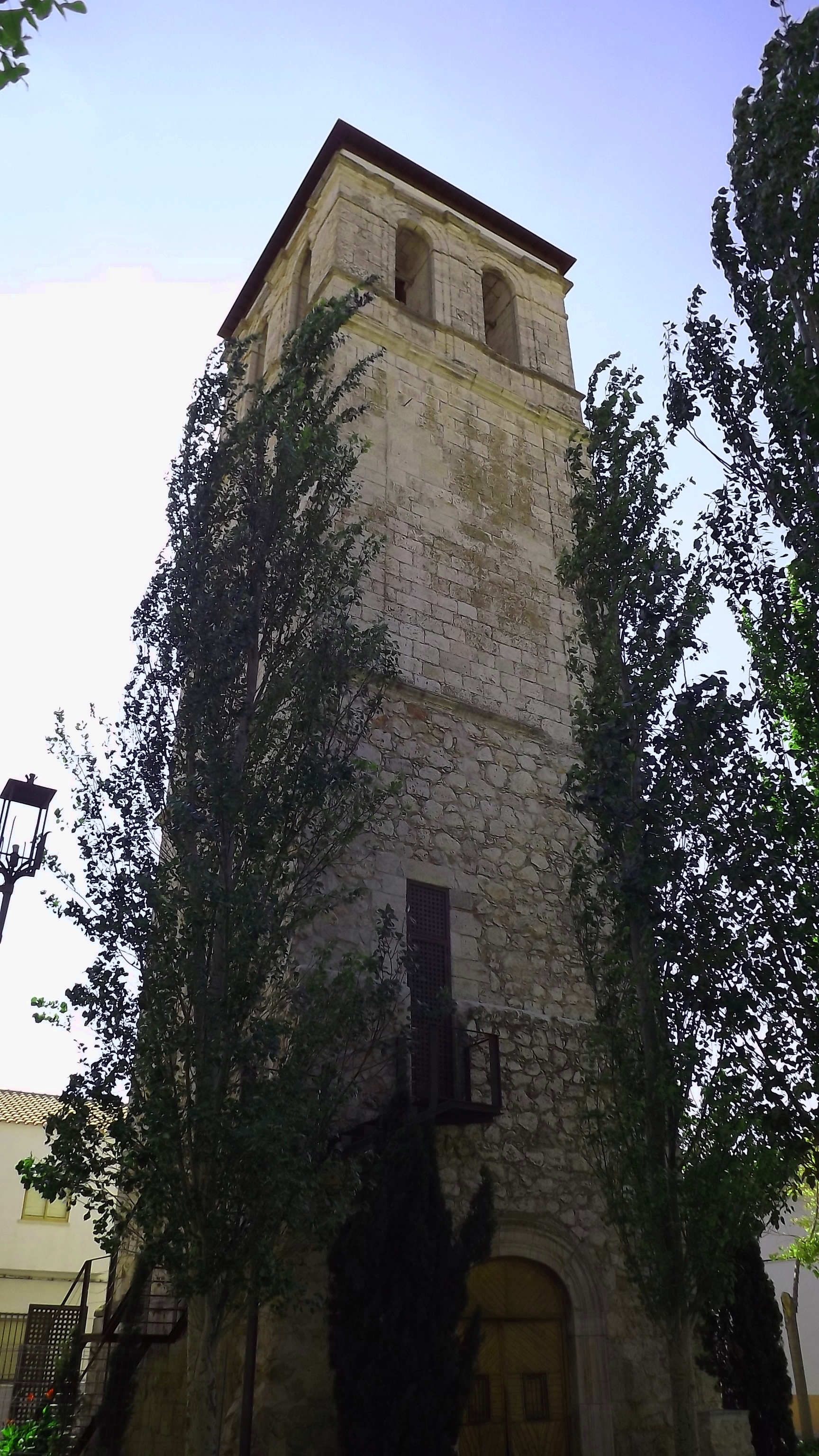 The tower of the San Martin Church, once restored